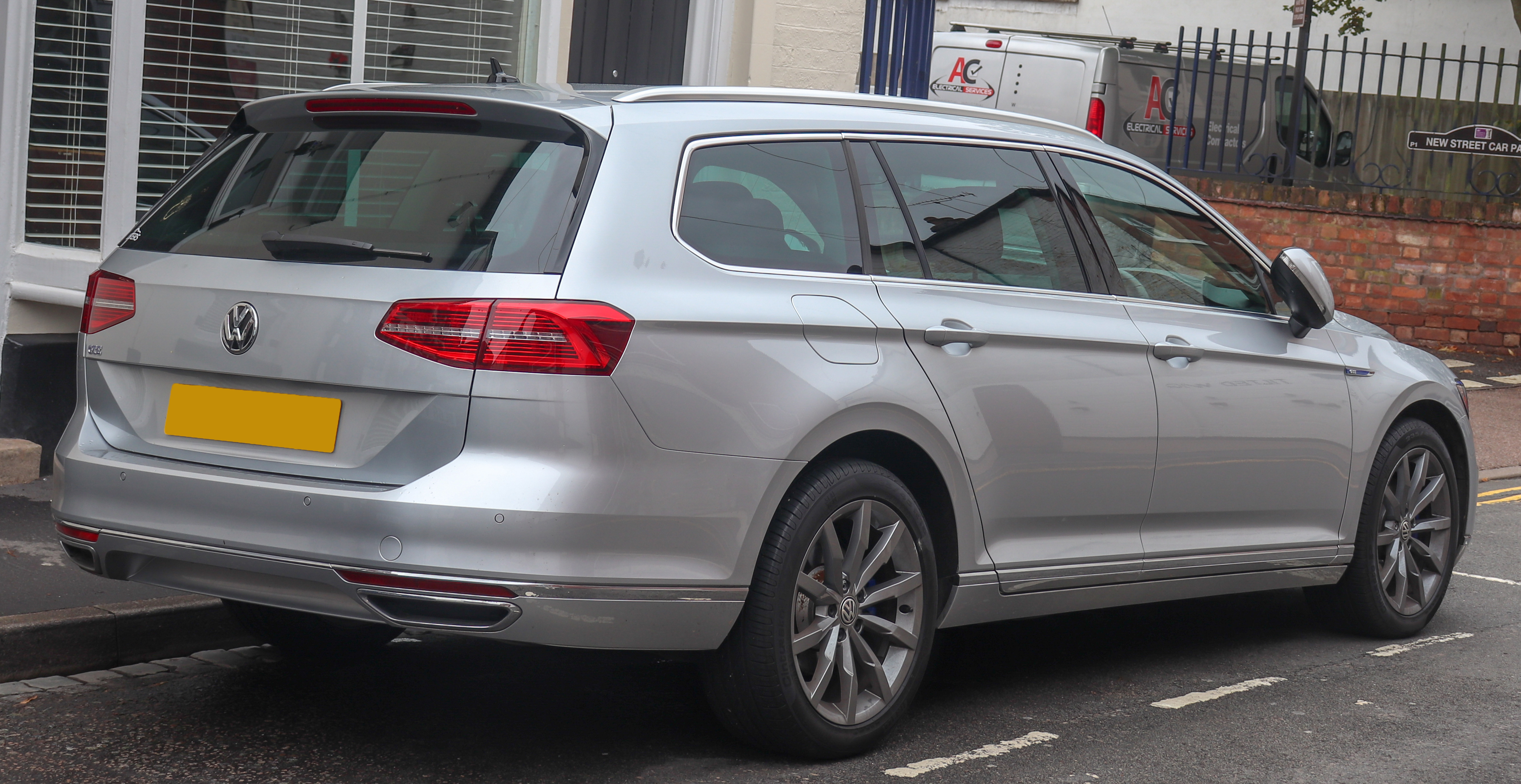 2018 Volkswagen Passat GTE Advance S-A 1.4 Rear Taken in Warwick